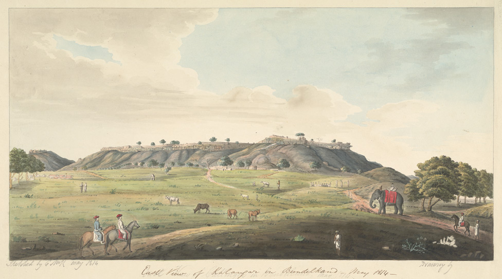 E. view of the Fort at Kalinjar. May 1814